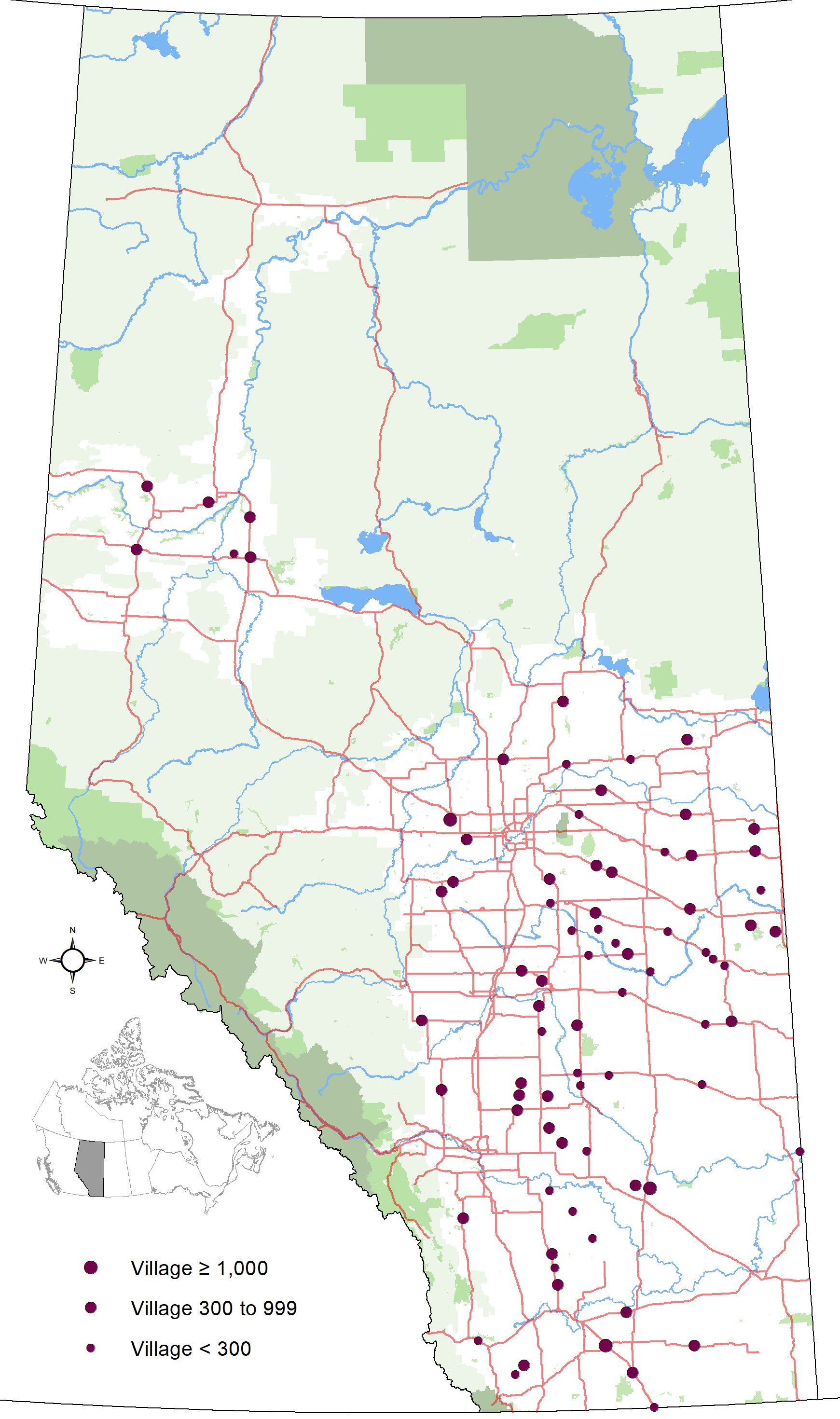 Map showing locations of Alberta's 94 villages as of May 2013, with base reference features (major lakes and rivers, provincial 1-216 highway series, national parks, provincial protected areas and green and white areas).